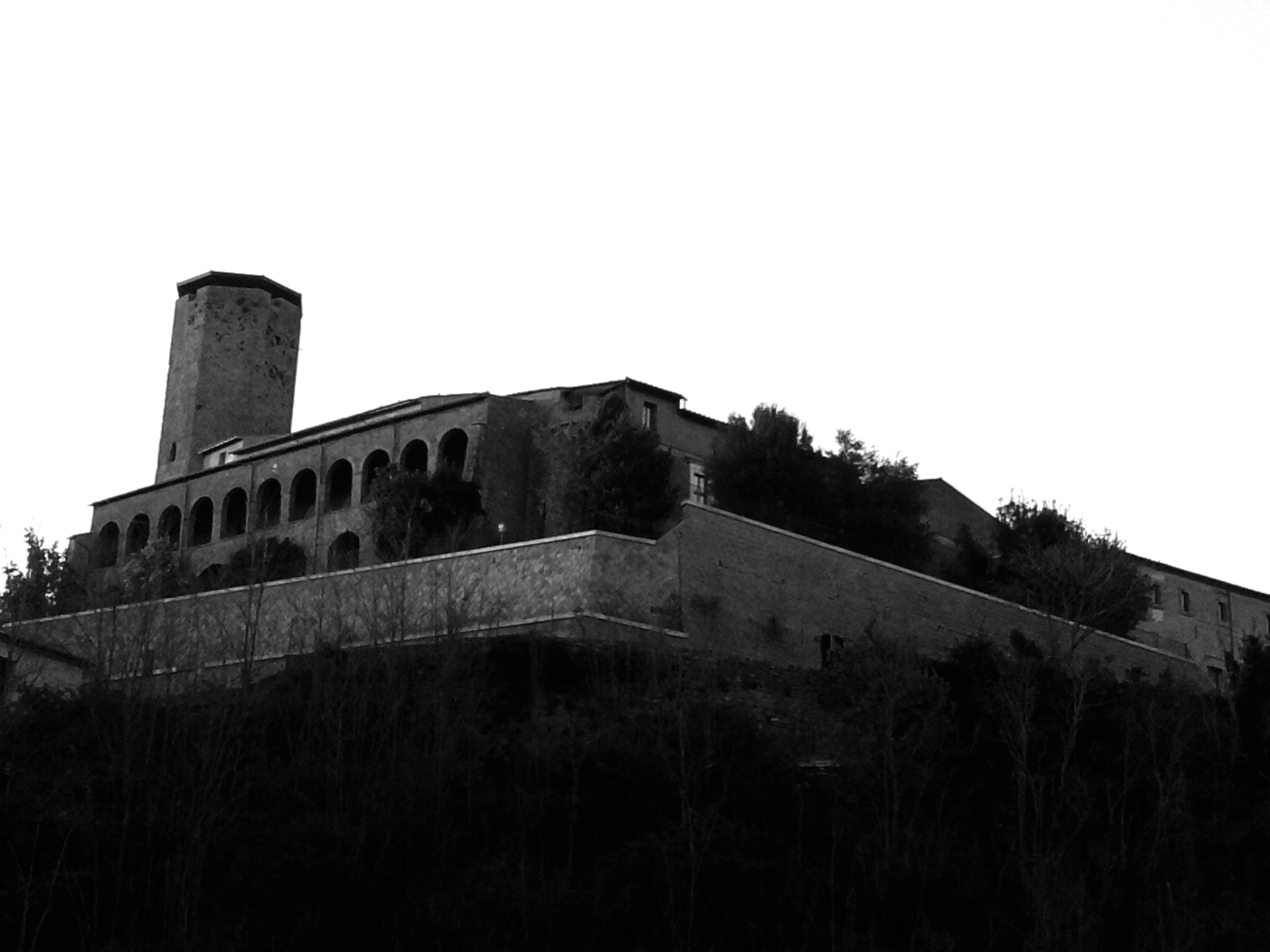 castle/meseum valentano